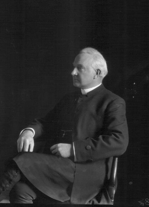 Very Rev. Reginald Waterfield (1867-1967).